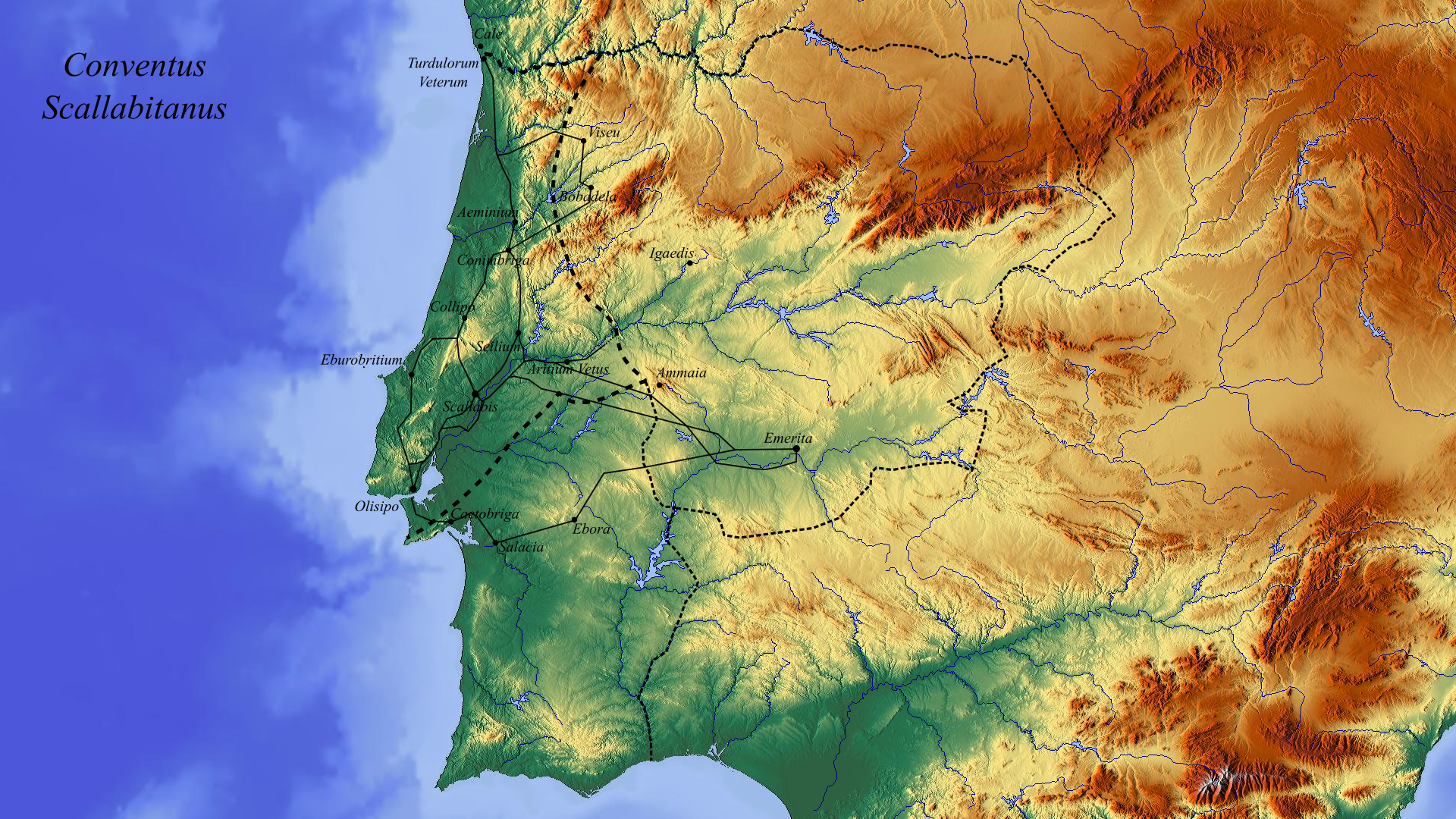 Own Work. The relief base map was taken from , itself derived from OpenStreetMap A broad depiction of the road structure in Conventus Scallabitanus, based on the interpretation (with some changes) of MANTAS, V. G. (2012) – As vias Romanas da Lusitânia. Mérida. Museo Nacional de Arte Romano. 325 p. The borders of Conventus Scallabitanus, Pacensis and Emeritensis were based on the interpretation (with some changes) of - TRANOY, A.; SILLIÈRES, P.; SALINAS de FRÍAS, M.; MANTAS V.G.; GORGES, J.G.; ALARCÃO, J. (1990) – Propositions pour un nouveau tracé des limites anciennes de la Lusitanie romaine. In Les villes de Lusitanie romaine: hierarchies et territoires, table ronde internationale du CNRS. Paris, Centre National de la Recherche Scientifique. P. 319-329.